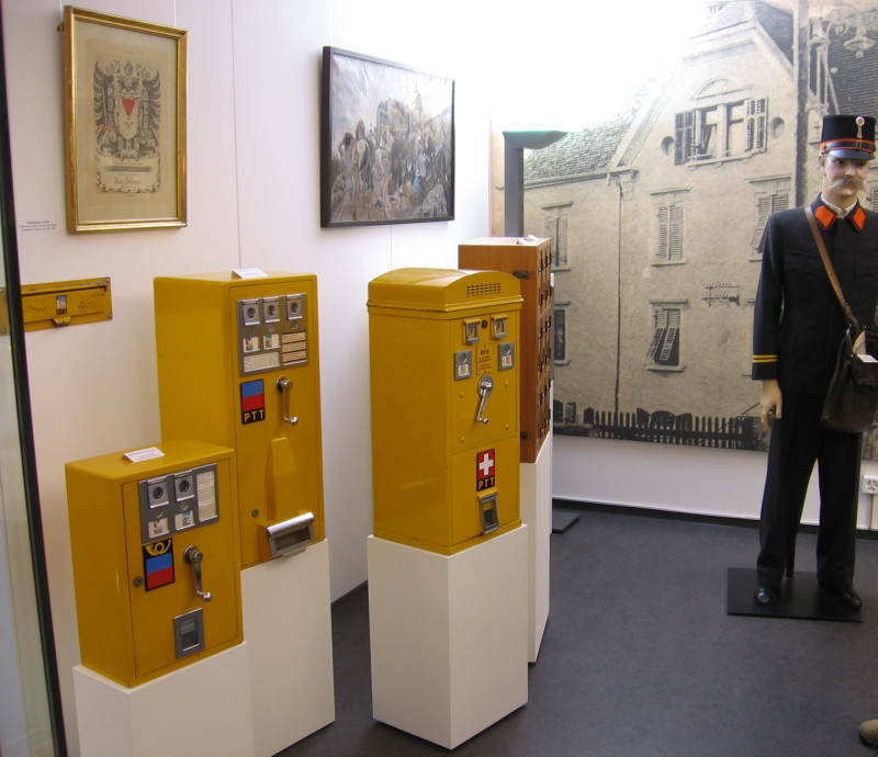 Vaduz, Liechtenstein: Postage Museum - Stamp automates